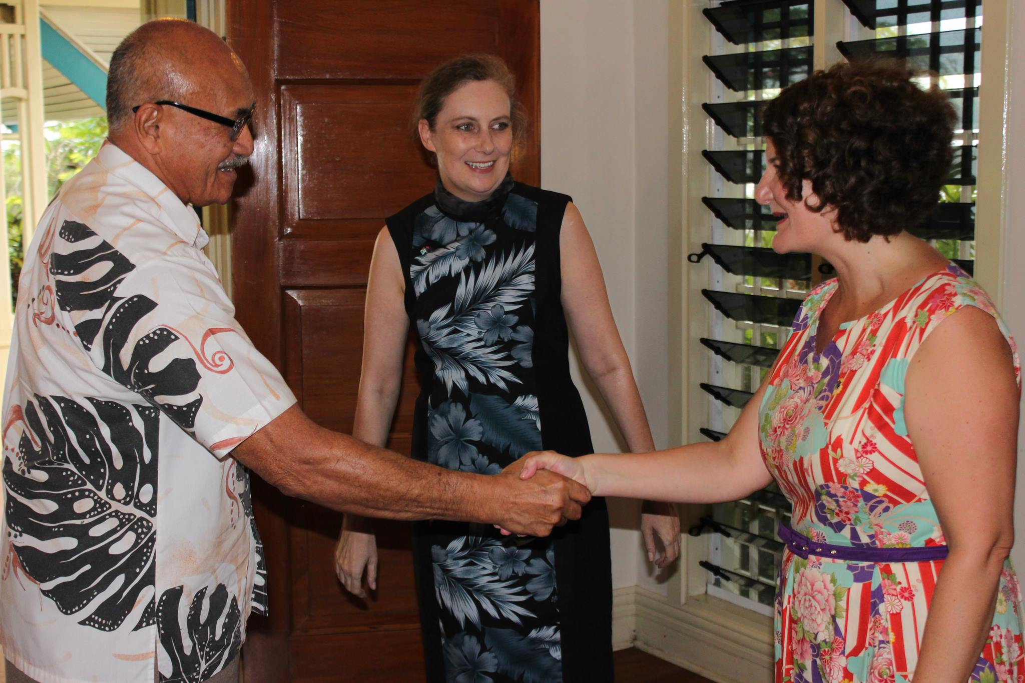 Marking Australia Day this week, High Commissioner Margaret Twomey was pleased to announce the awarding of the Order of Australia to Peter Drysdale. A dual citizen of Fiji and Australia, Drysdale has spent most of his life in Fiji. He was awarded in recognition of his contribution over the last 30 years to providing low-cost housing for disadvantaged Fijians through what is now the Koroipita Model Town Charitable Trust. Ms Twomey announced Drysdale's award to guests at the Australia Day function hosted at the High Commissioner's residence in Suva on Tuesday. Guests at the event included Government ministers and senior officials, heads of media organisations, local businesses and regional organisations, members of the diplomatic corps and civil society. The Order of Australia is Australia's highest recognition for outstanding achievement and service